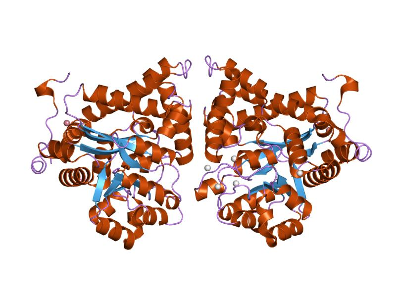 Cartoon representation of the molecular structure of protein registered with 2amx code.